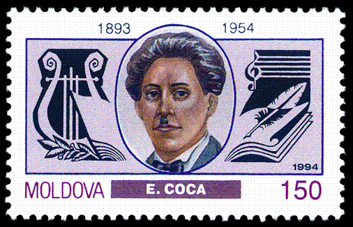 Eugen Coca ; Stamp of Moldova